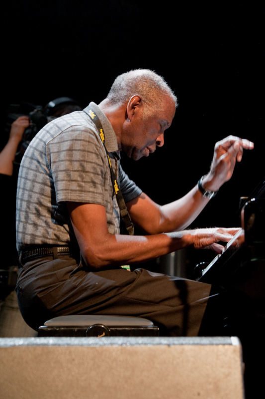 Muhal Richard Abrams, moers festival 2009